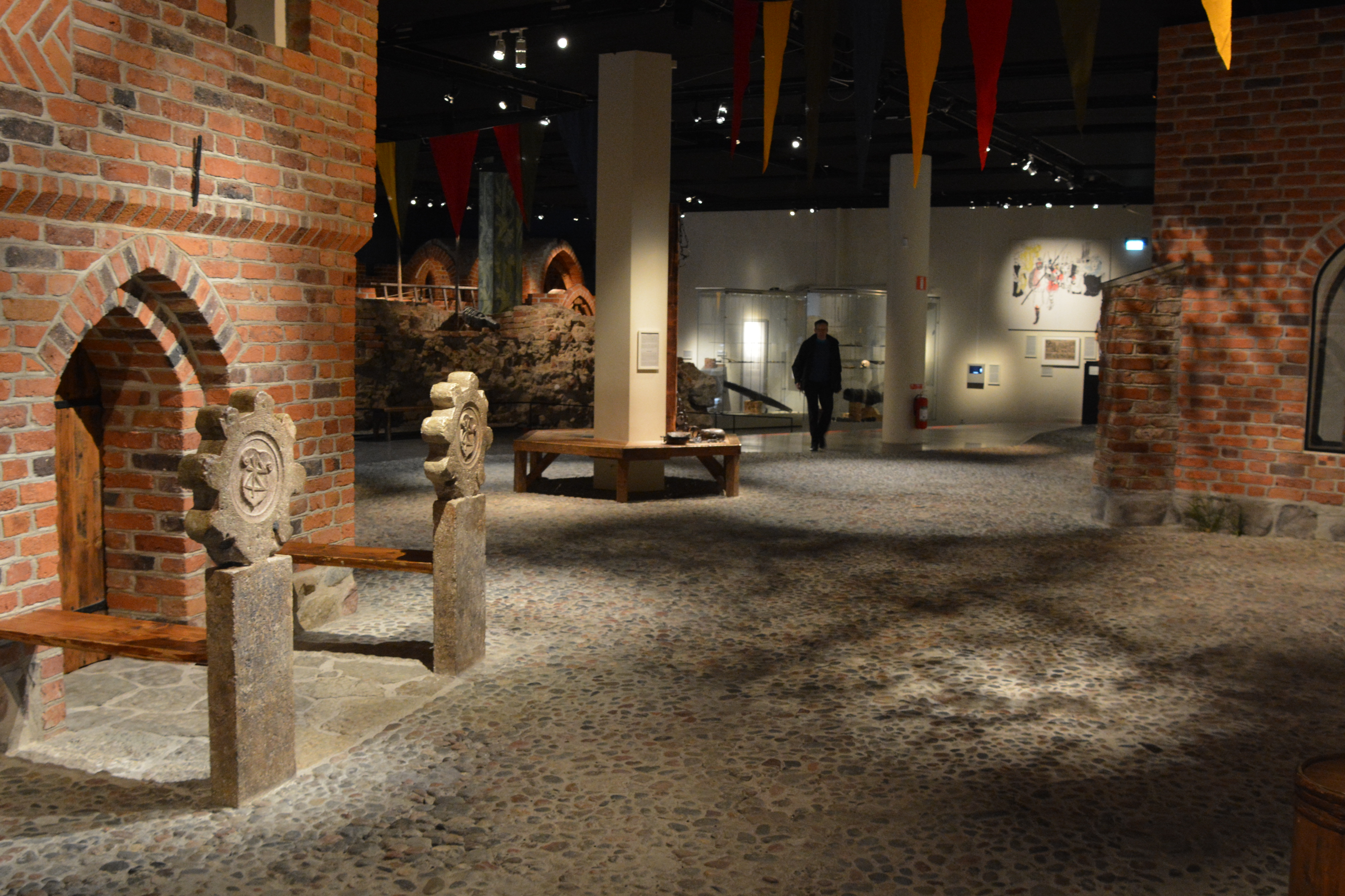 Medltidsmuseet, Stockholm